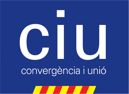 ciu candini calella